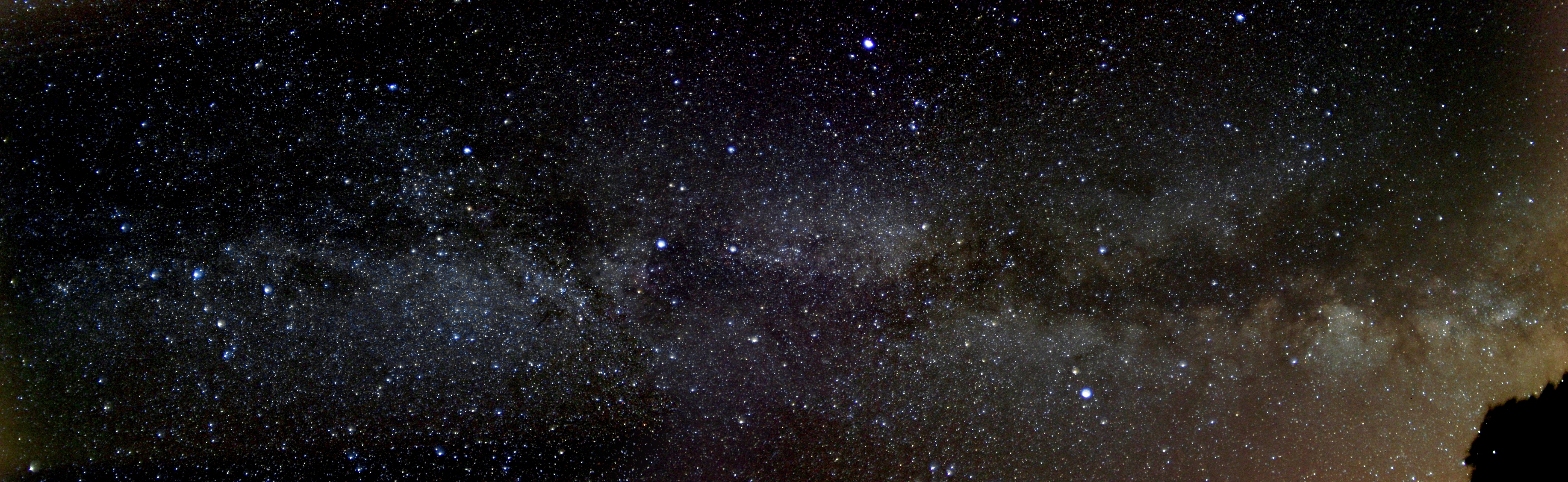 Panoramic view of the Milky Way with the constellation Swan